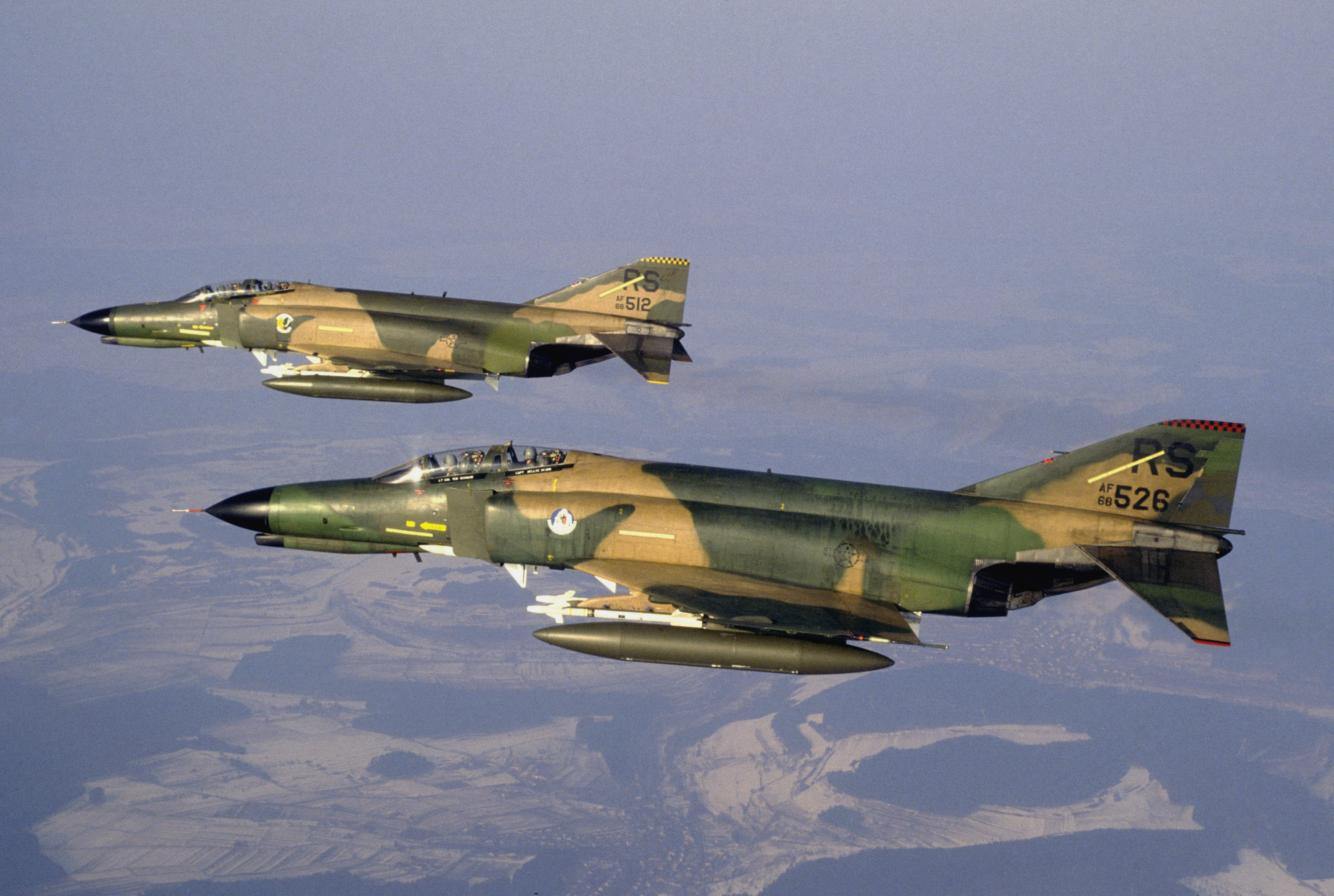 Two U.S. Air Force McDonnell Douglas F-4E-41-MC Phantom II aircraft (68-0512, 68-0526)) assigned to the 512th and 526th Tactical Fighter Squadrons, 86th Tactical Fighter Wing, fly one of their last aerial missions on 20 March 1985. Both squadrons from Ramstein Air Base, Germany, replaced their Phantoms with F-16 Fighting Falcon aircraft. 68-0512 was piloted by Lieutenant Colonel Bruce Gillett and navigated by Captain Mike Craig. LtCol Tom Speelman was piloting 68-0526 with 1st Lieutenant John Rogers navigating.